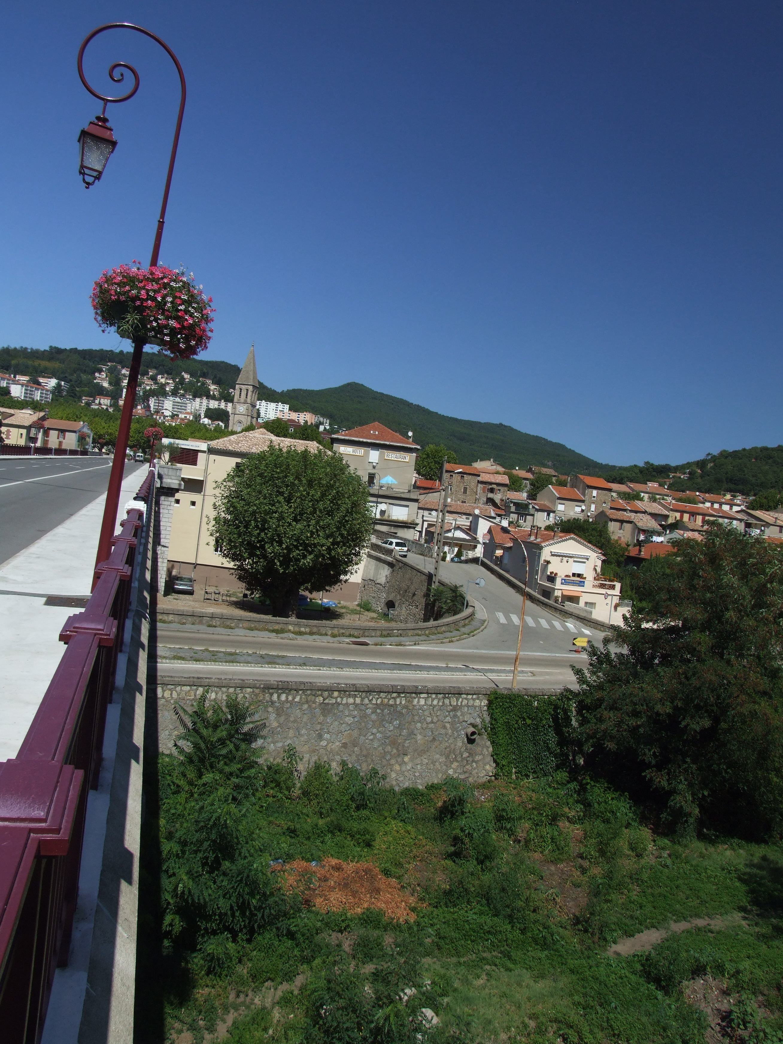 La Grand-Combe is a commune, situated on the opposite bank of the River Gardon d'Alès to the Les Salles-du-Gardon.near the N106 in the canton ofAlès, in the departement of Gard in the region Languedoc-Roussillon in southern France. It is a town of the industrial revolution founded in 1846 and known for its coal mining. Its post code is F30110 and INSEE 30132. Bridge over the Gardon